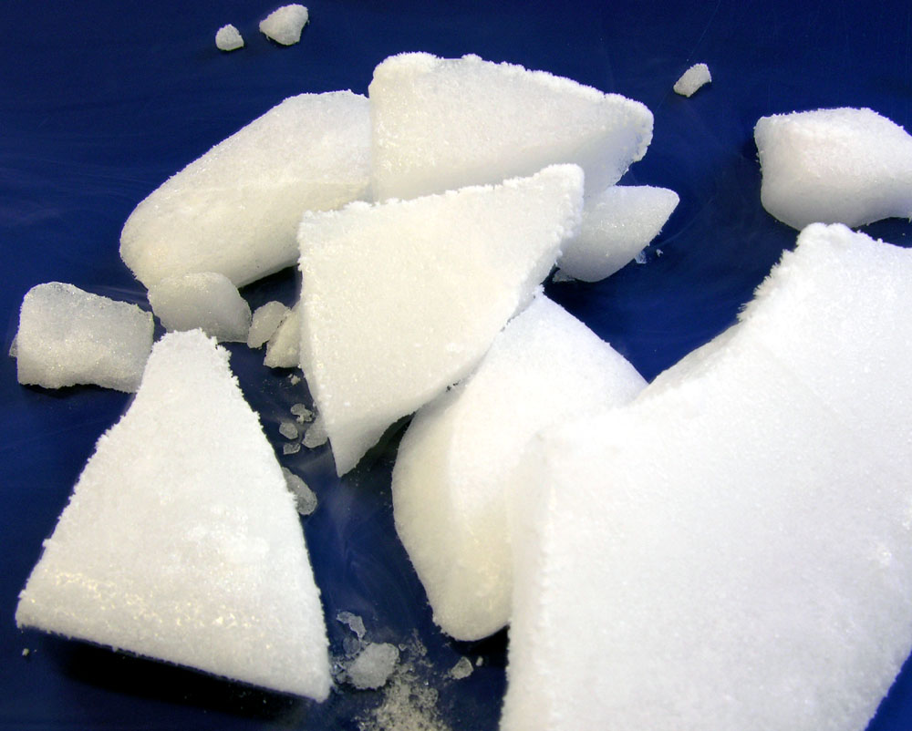 Dry ice